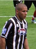 Liam Hearn